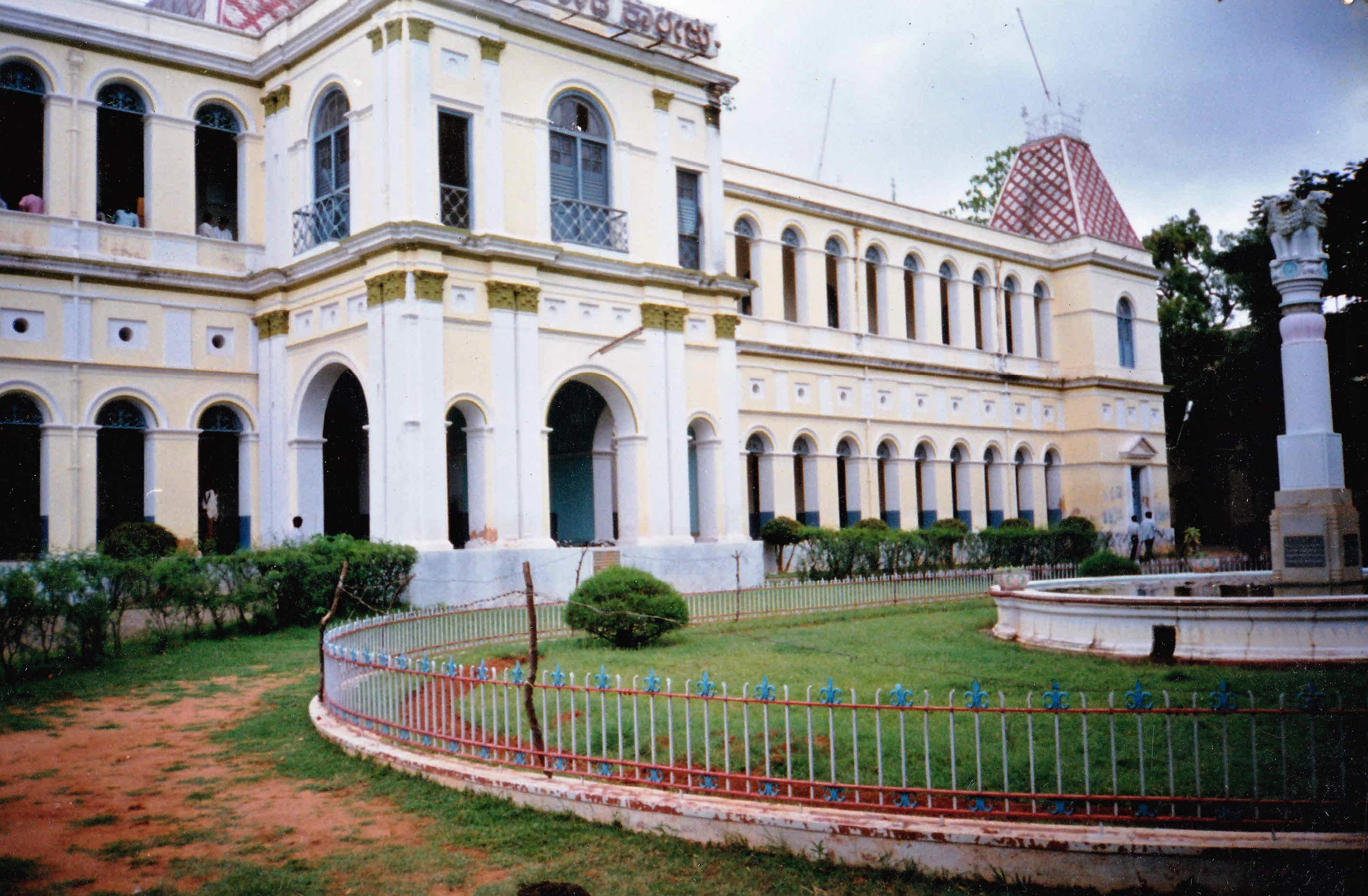 Maharaja's College, University of Mysore, Mysore